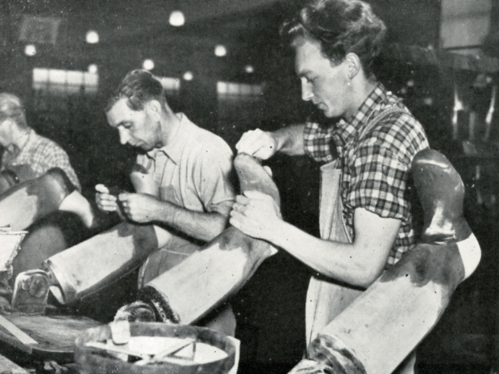 Historic picture of the rubber boot production in Viking Footwears factory in Askim